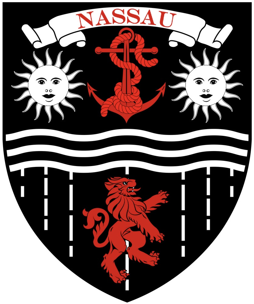 The Coat of Arms of Nassau